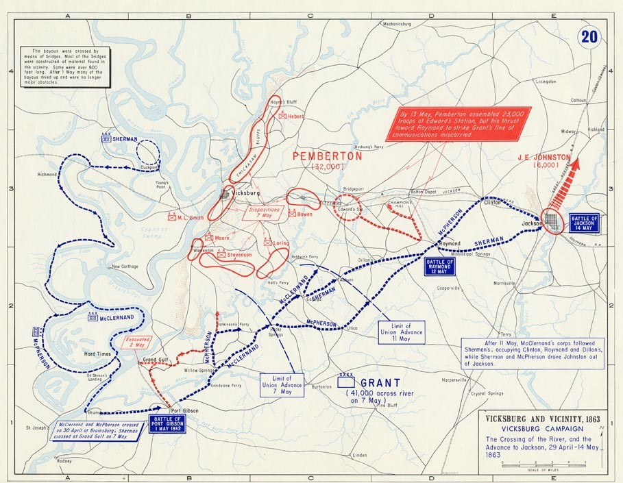 Vicksburg Campaign - Crossing of the River and Advance to Jackson 29 April - 14 May